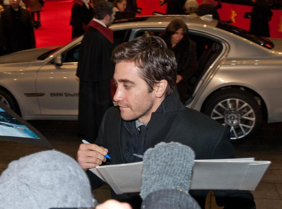 American actor Jake Gyllenhaal, Opening of the 62nd Berlin International Film Festival.